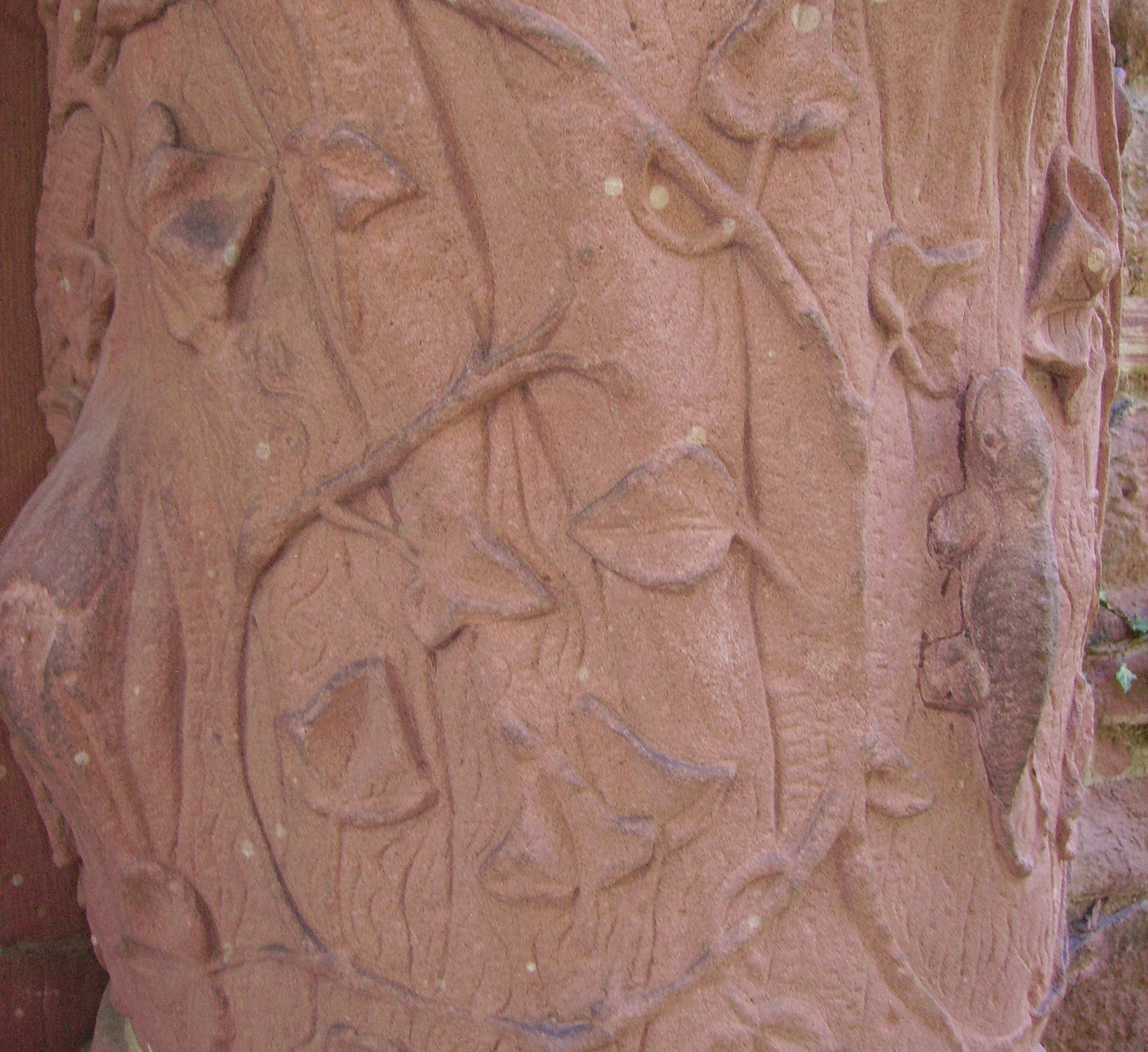 part of Heidelberg castle (Heidelberger Schloss)